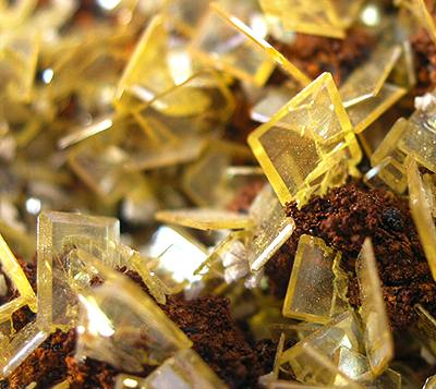 Mimetite, Wulfenite Locality: Mina Ojuela, Mapimi, Durango, Mexico Size: miniature, 5.5 x 5.1 x 2.5 cm Wulfenite with Mimetite Bright, transparent, light yellowish-orange wulfenite blades to .5 cm along with minute tufts of white mimetite all sit on a matrix of limonite gossan. The sheer number of wulfenite crystals take on the appearance of window panes. VERY RARE AND VERY RICH for the locality, better known for about every other Mexican mineral than wulfenite. Fragile but i think it will mail OK if you are willing to accept a few inevitable xls faling off.